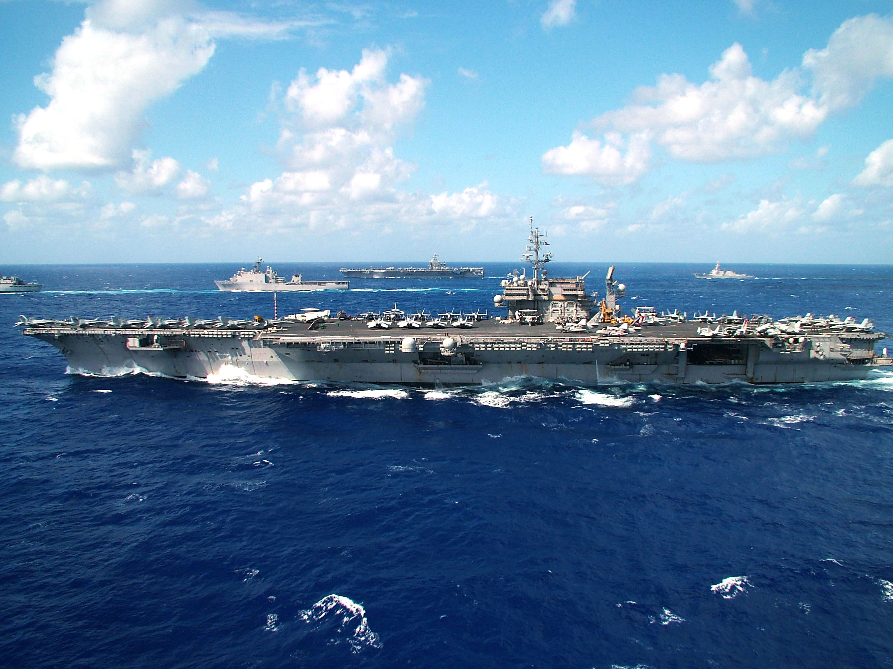 Pacific Ocean (Aug. 7, 2004) – Aircraft carriers USS Kitty Hawk (CV 63) and USS John C. Stennis (CVN 74) steam into position for a photo exercise. Kitty Hawk and Stennis CSGs recently participated in Joint Air/Sea Exercise 2004 (JASEX ‘04). Kitty Hawk is currently under way in the 7th Fleet area of responsibility (AOR) as the ship demonstrates power projection and sea control as the world's only permanently forward-deployed aircraft carrier, operating from Yokosuka, Japan. U.S. Navy photo by Photographer's Mate 2nd Class William H. Ramsey (RELEASED)